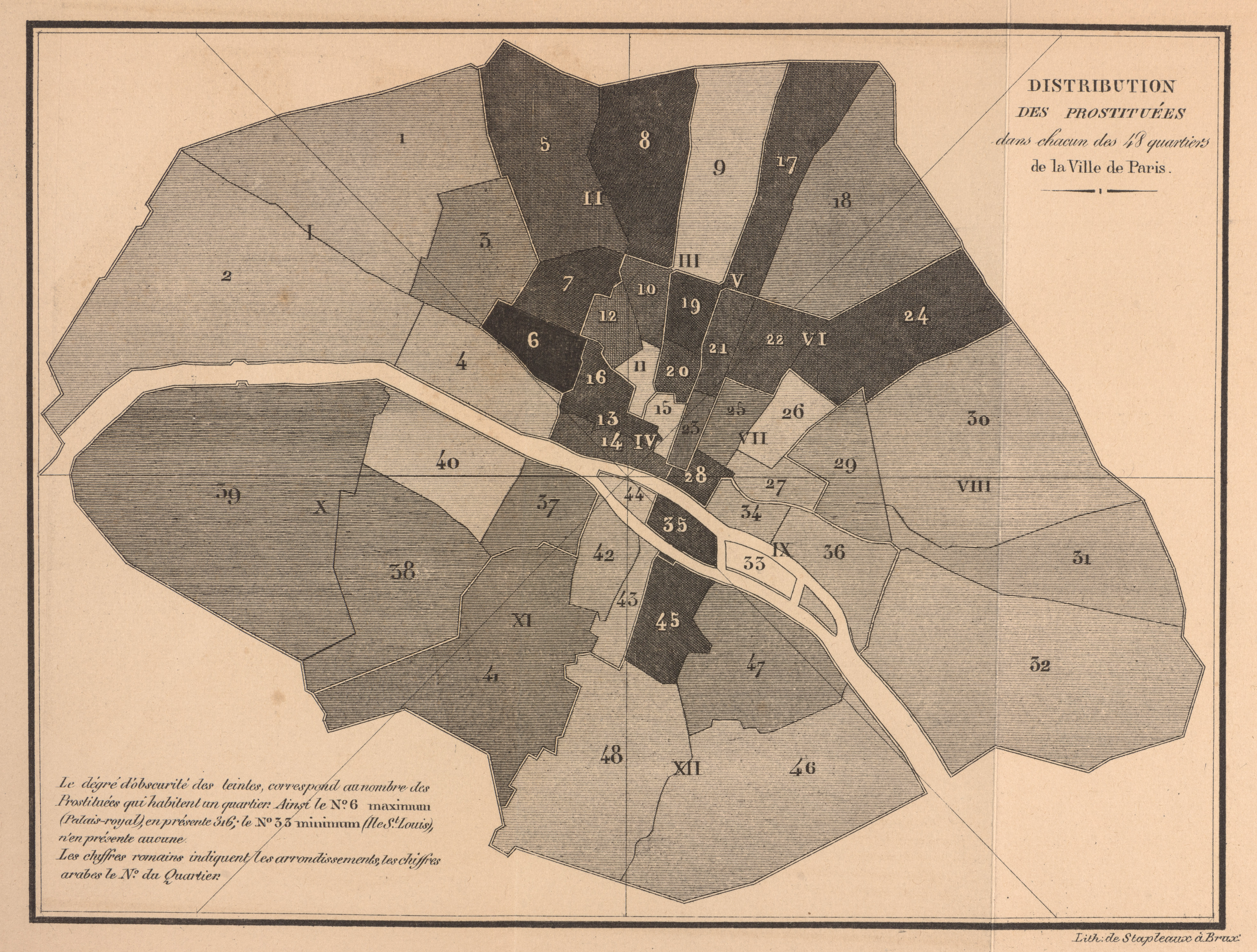 Distribution of Prostitutes in each of the 48 quarters of Paris.